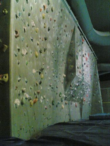 I, Kenny Gillen, took this photograph of the Kelvin Hall bouldering wall with my camera phone.